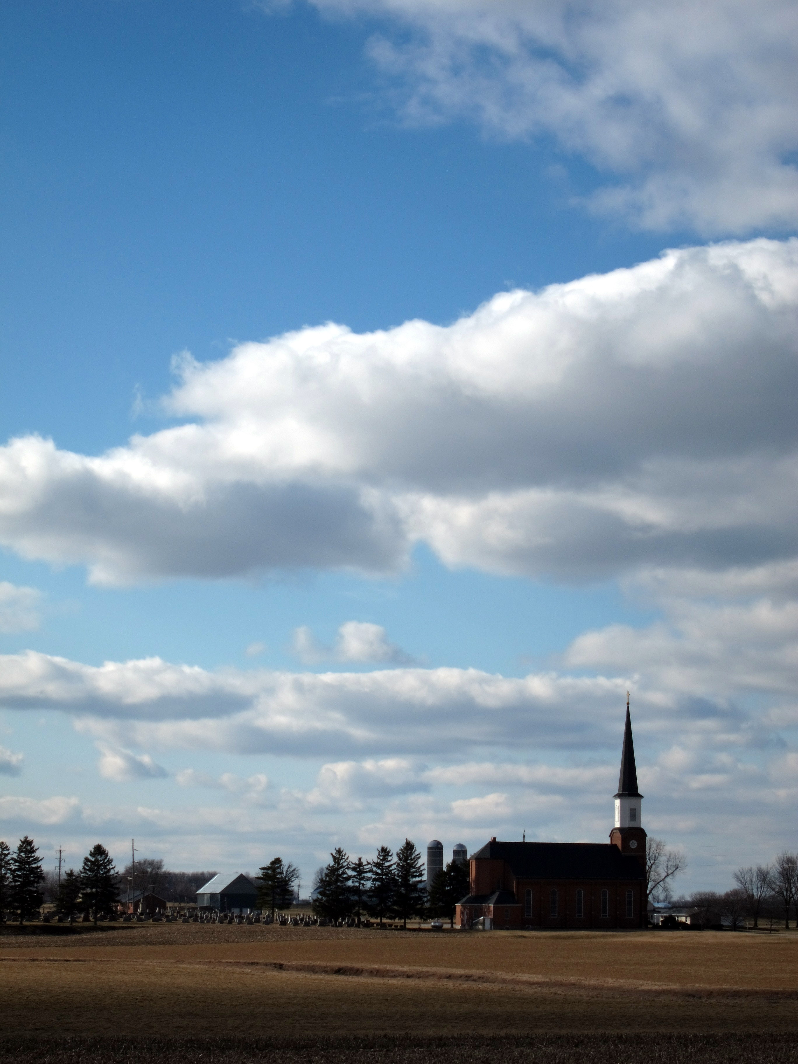 Saint Aloysius Church (Carthagena, Ohio), exterior, facing west